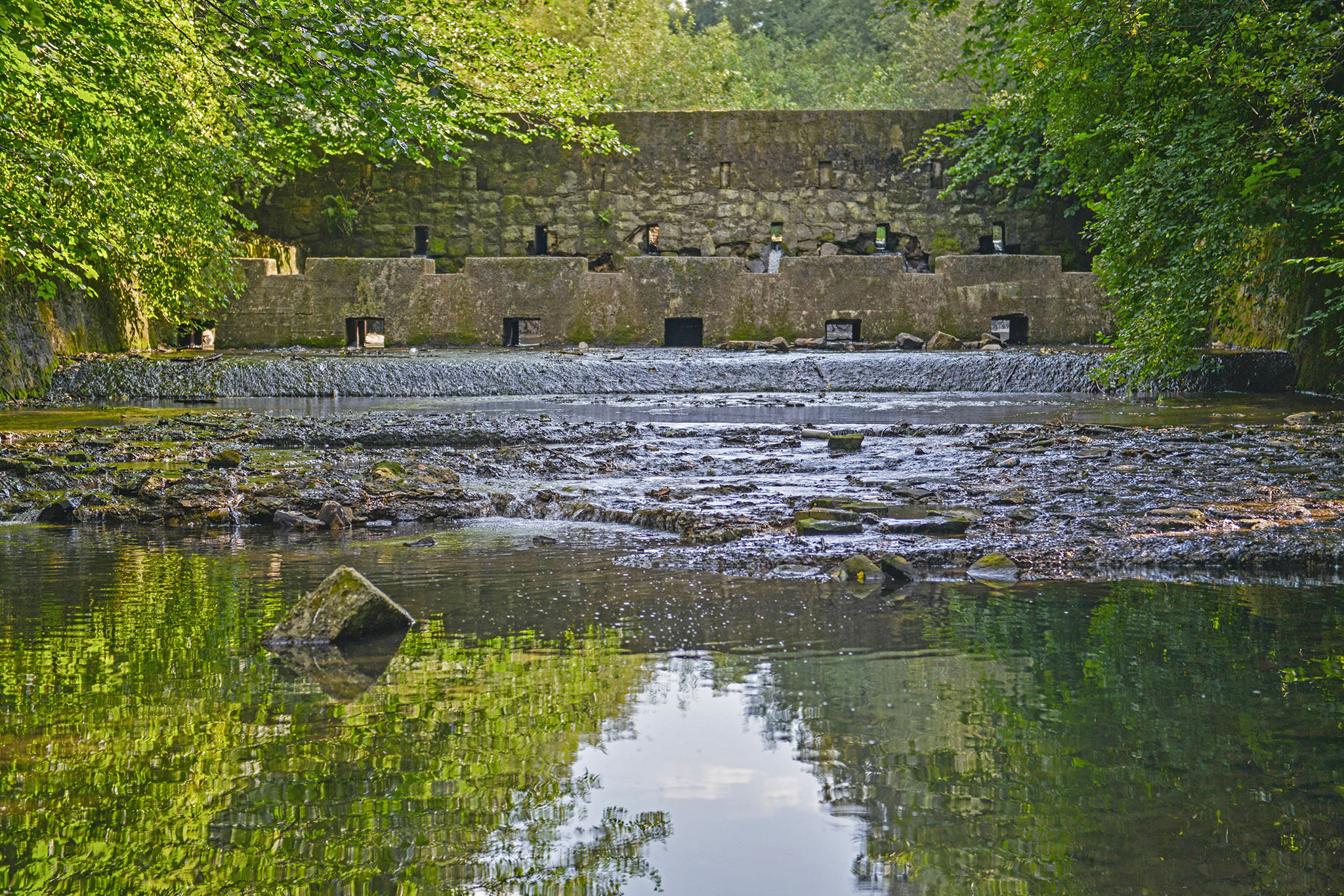 Wapienica River in Wapienica, district of city Bielsko-Biala, Poland